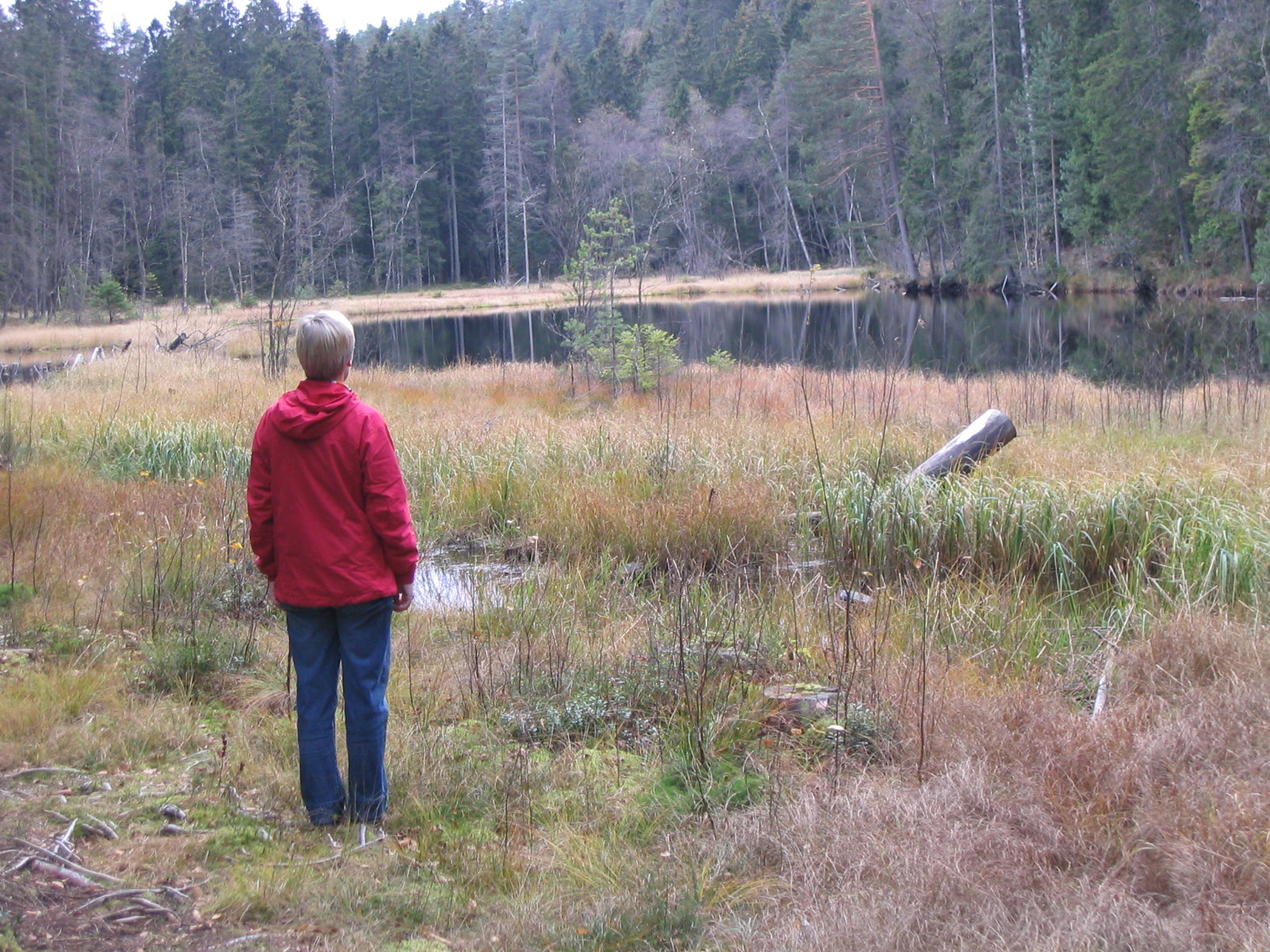 Nordre Puttjern, in Østmarka, Oslo, Norway; ten years after the lake was drained by the construction on Romeriksporten.